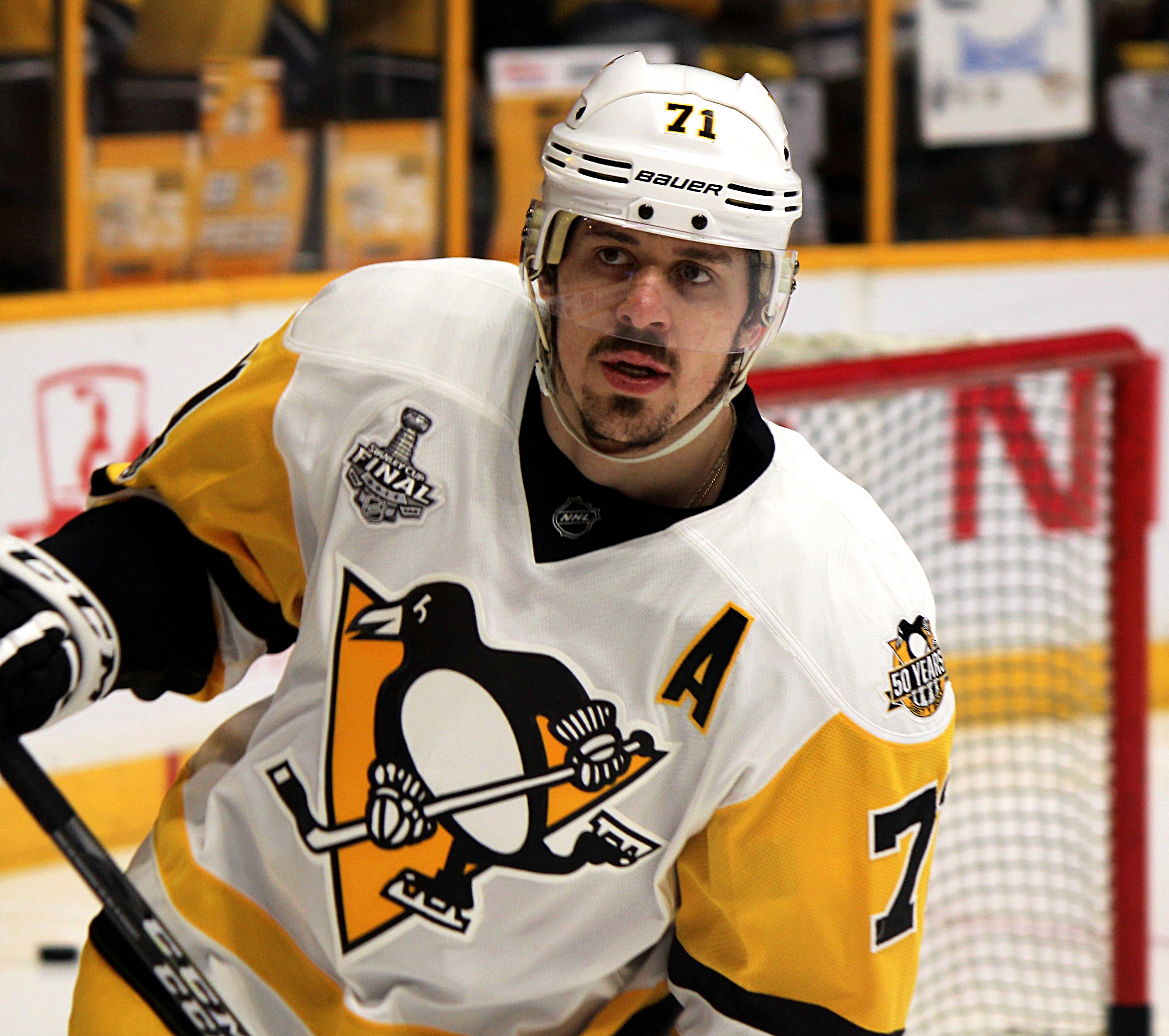 Pittsburgh Penguins center Evgeni Malkin warms up before game 6 of the Stanley Cup Final against the Predators, June 11, 2017, at Bridgestone Arena in Nashville, TN.